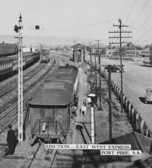 On the outskirts of Port Pirie, South Australia, this narrow-gauge "station" was established at Solomontown in 1911. It consisted only of a small waiting shelter, a signboard, and a compacted earth footpath where people boarded and alighted (centre, where the girl is). On the left is the substantial passenger station of Port Pirie Junction. It was built in 1937 to handle traffic on the new broad-gauge and standard-gauge lines, for which a raised island platform was essential. Passengers continued to leave or board narrow-gauge trains at this ground-level area, but the official name "Solomontown" was discontinued. However, public discontent soon resulted in the signboards on the new "Port Pirie Junction" station's platform and on the signal box (centre distance) being supplemented by "Solomontown" underneath. Locals and railwaymen alike continued to use the old name instead of the new one. The railcar and trailer is probably the school train, which proceeded into the hinterland to Gladstone.